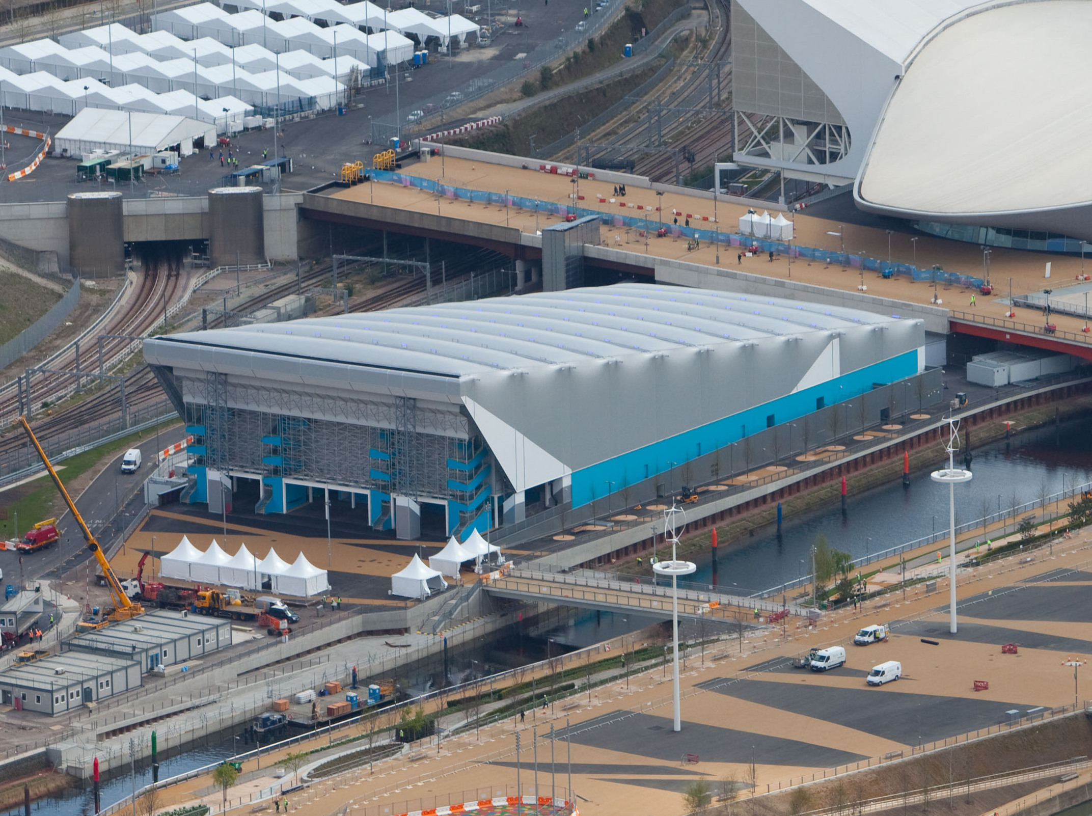 Aerial view of the Olympic Park showing the Aquatics Centre and the Water Polo Arena. Picture taken on 16 April 2012.